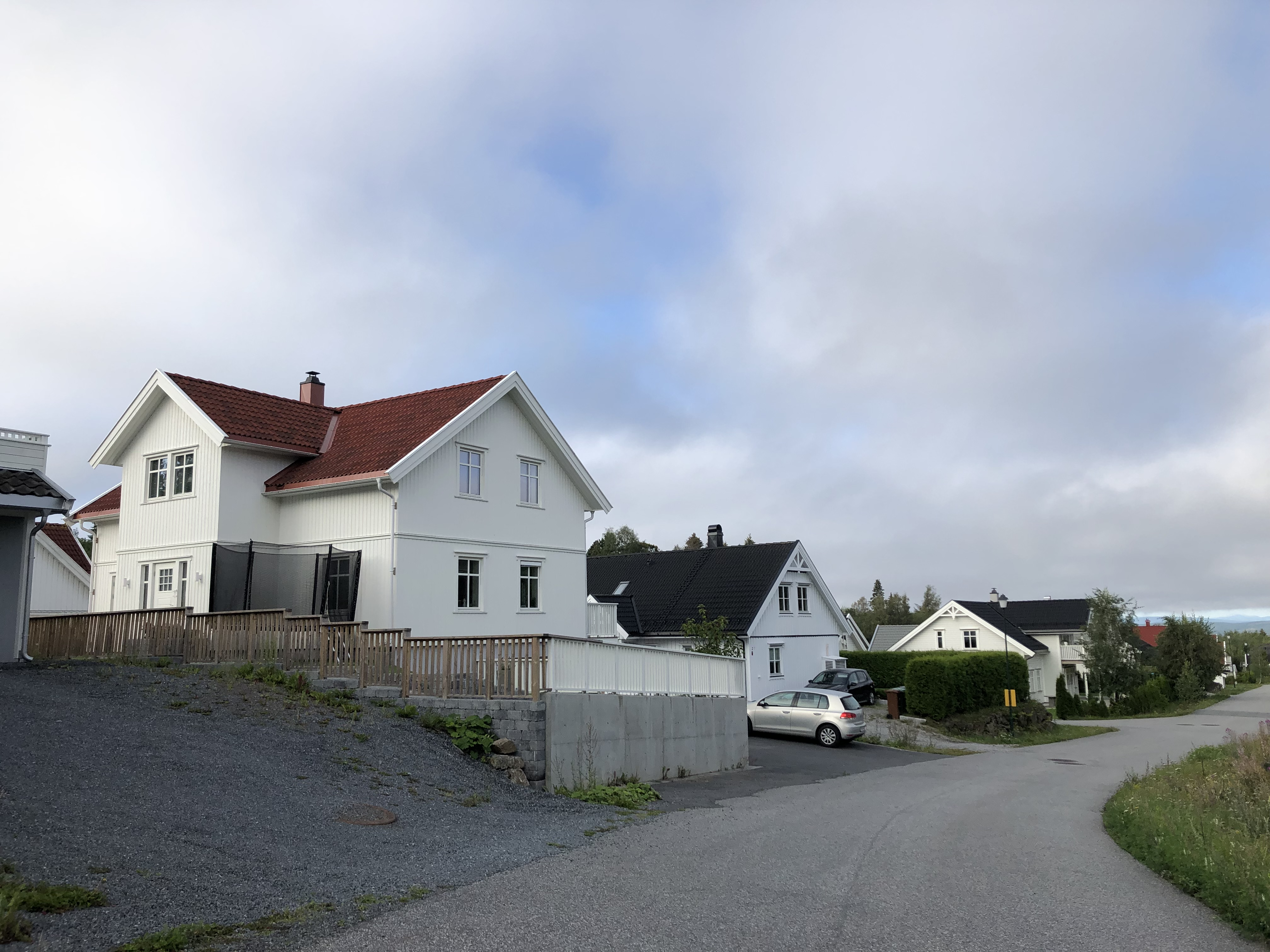 Hemskogveien, Ringerike, Norway